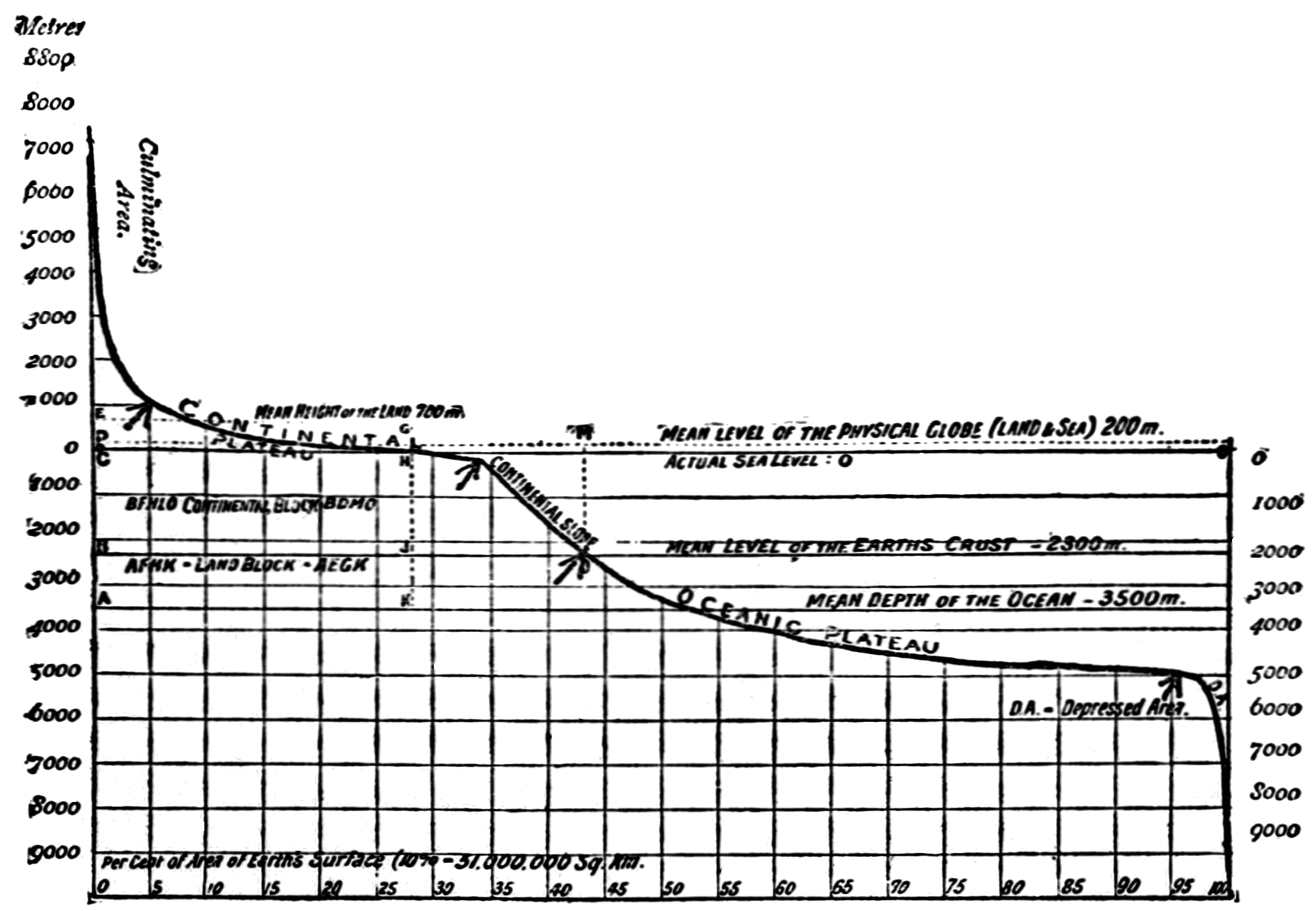 Wagner's hypsographic curve